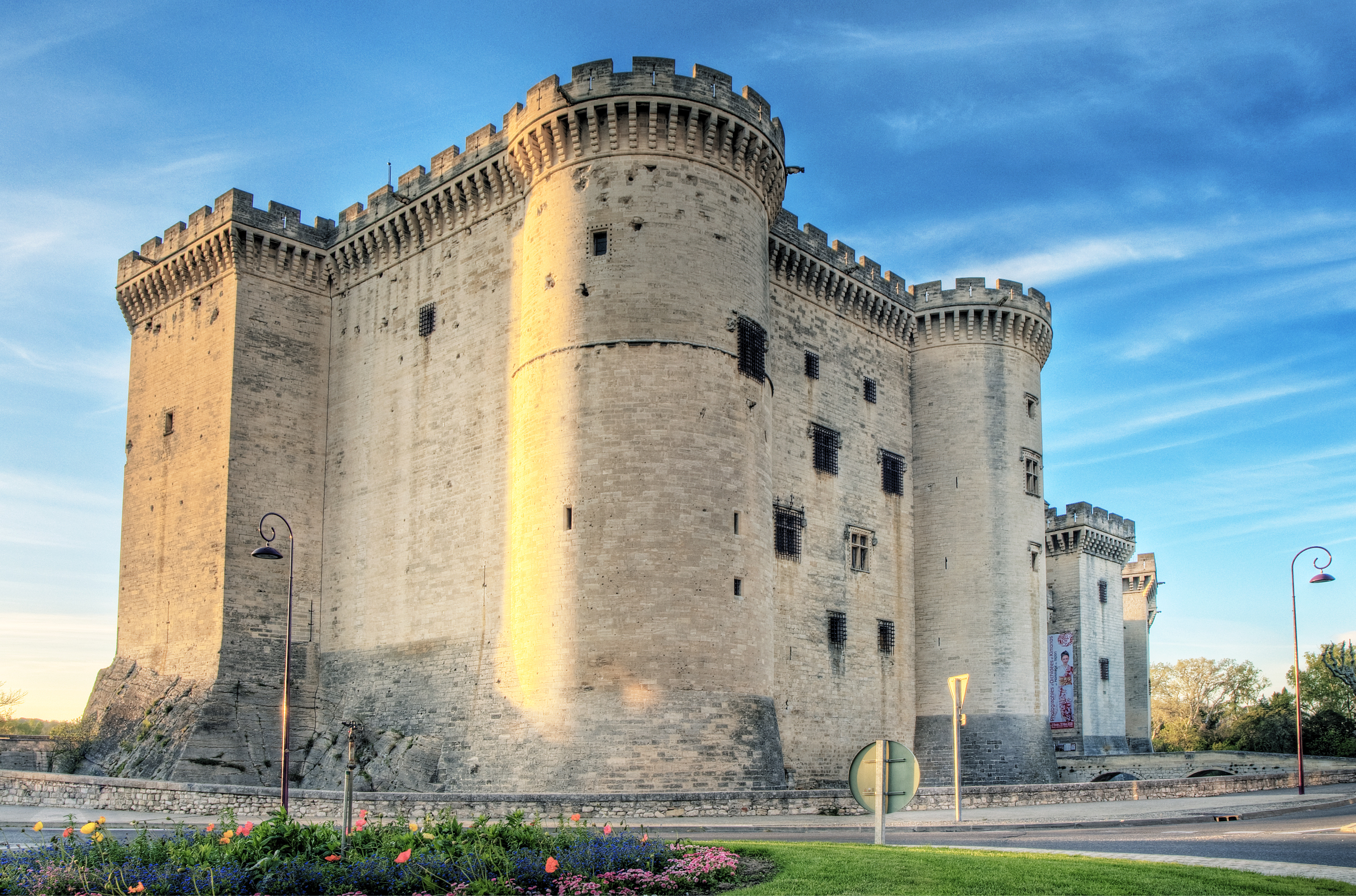 Castle of Tarascon